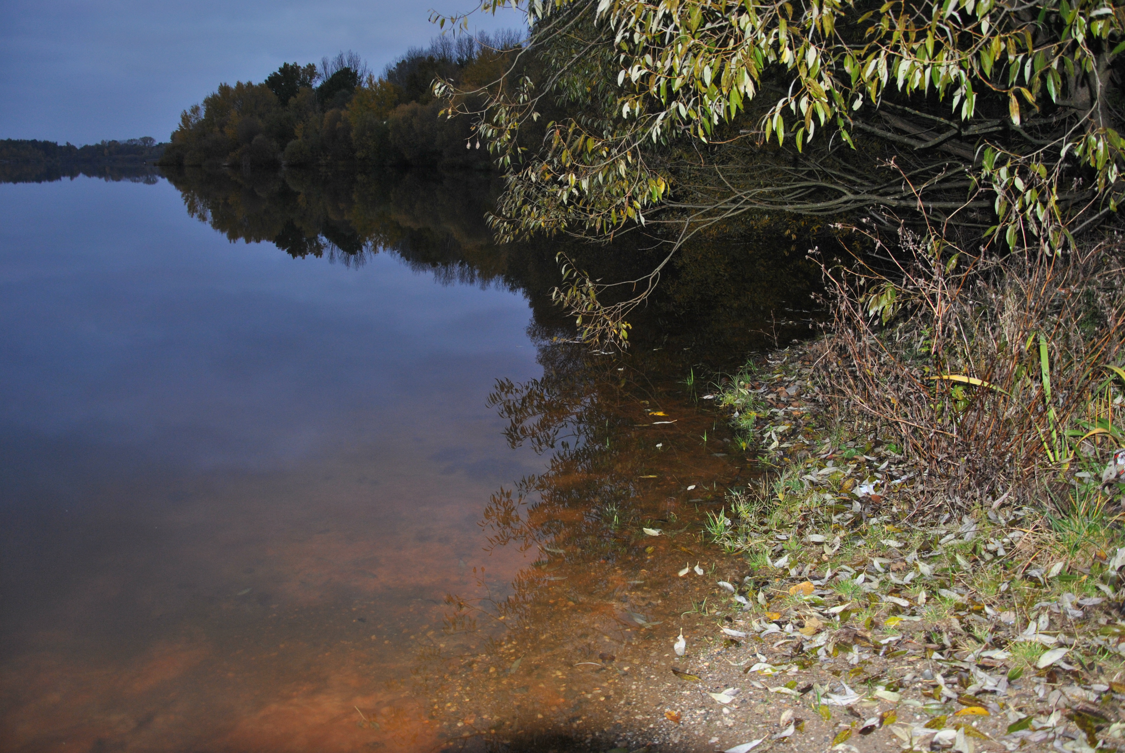 Velký Tisý